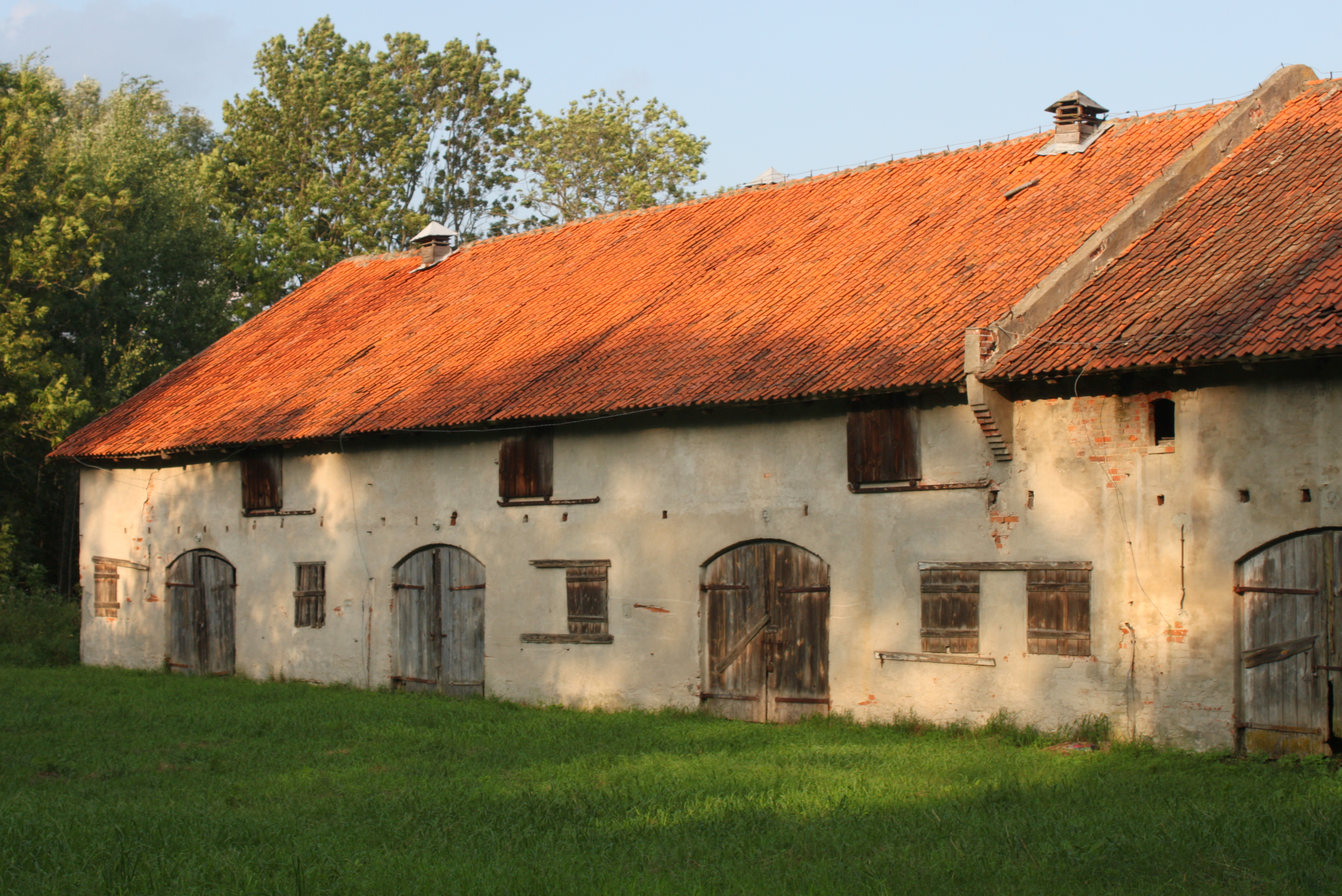 Farmhouse in Bieńki.